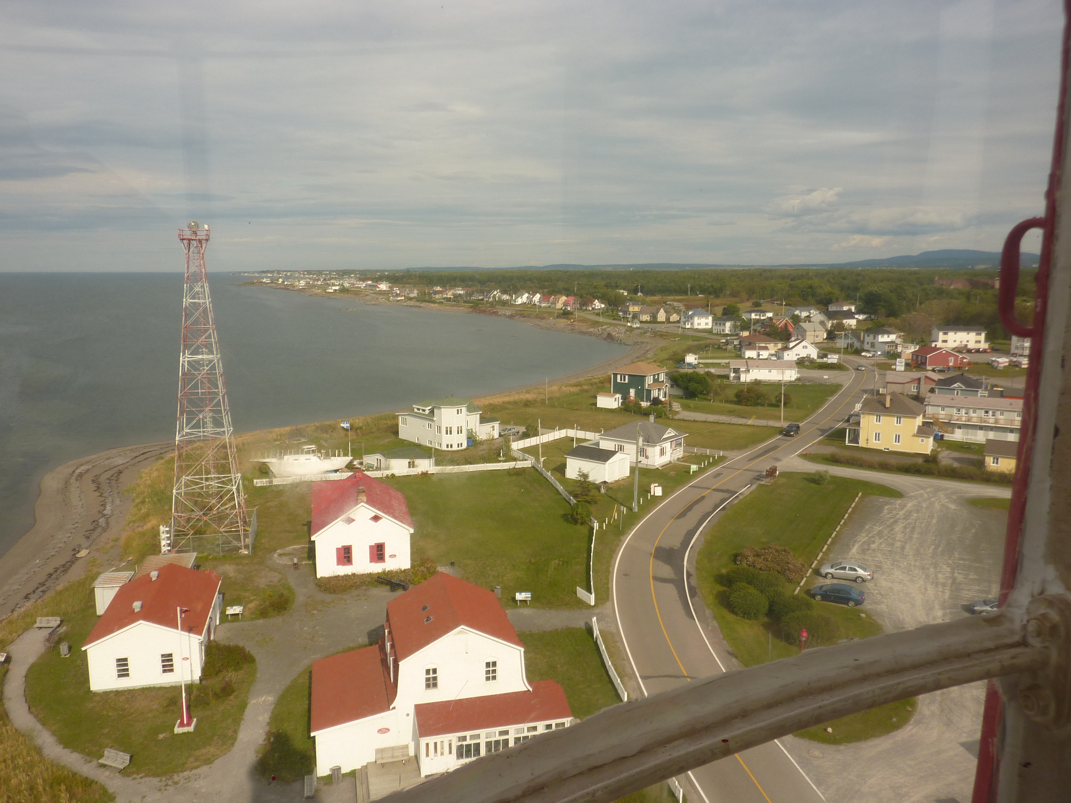 Eastward view from the top of Pointe-au-Père Lighthouse on the site of the Site Historique Maritime de la Pointe-au-Père, Rimouski, Québec, Canada, september 2012. The lighthouse station and keeper's house are seen (red roof) near the banks of the Saint-Lawrence river.